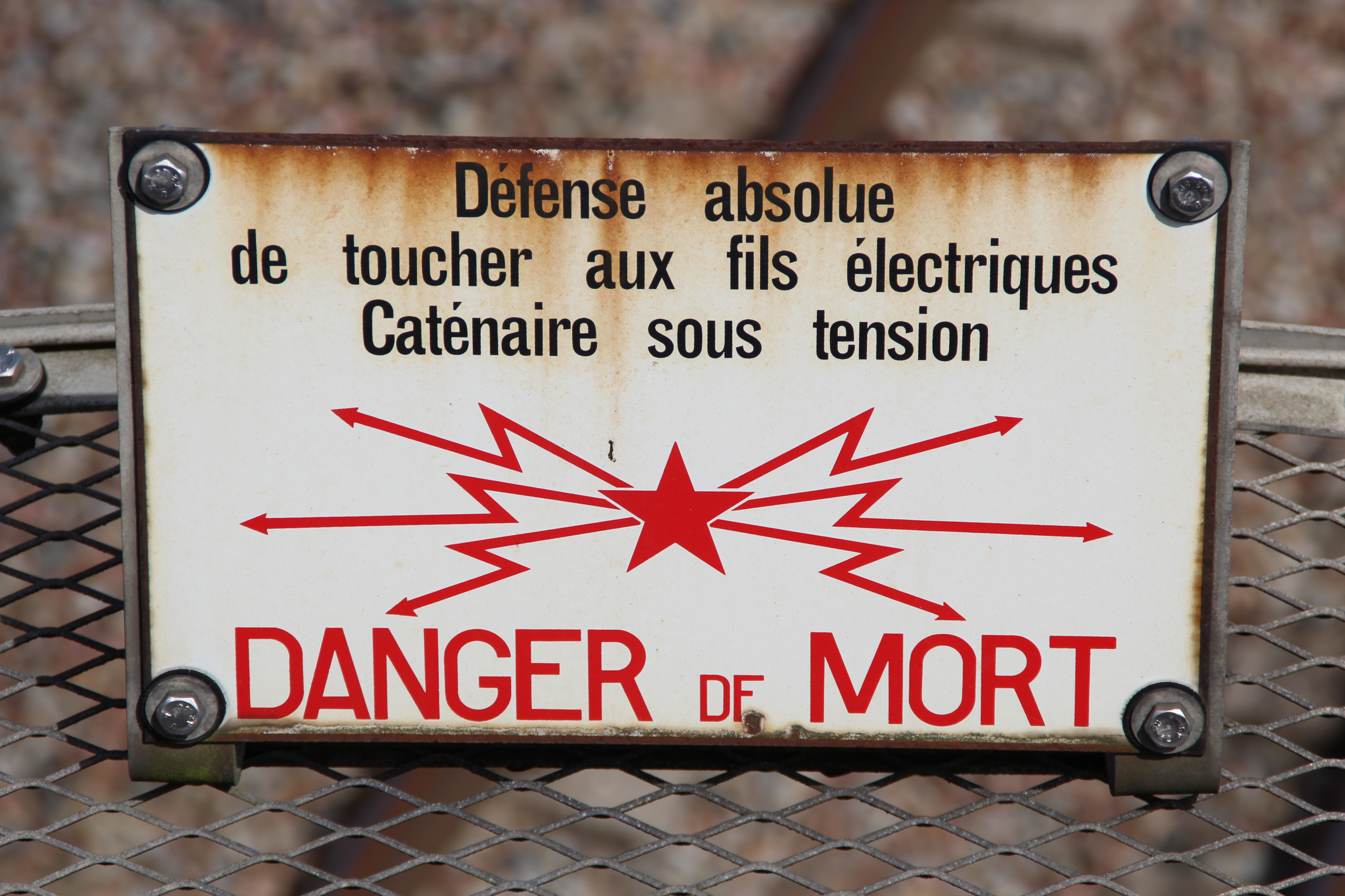 Obville road, crossing over the railway of the TGV Atlantique in Boinville-le-Gaillard, France. Text on the panel: absolutely forbidden to touch the electric wires - Catenary under electric current - Catenary current - Danger of death.